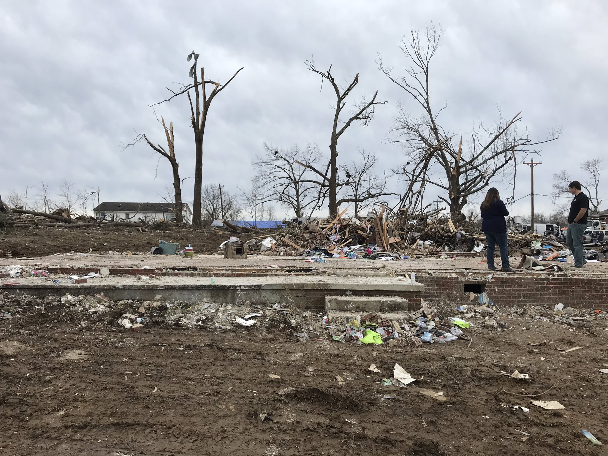 EF4 damage in Putnam County, Tennessee, from a violent tornado that impacted the region during the pre-dawn hours of March 3, 2020. Photo taken as part of a damage survey.